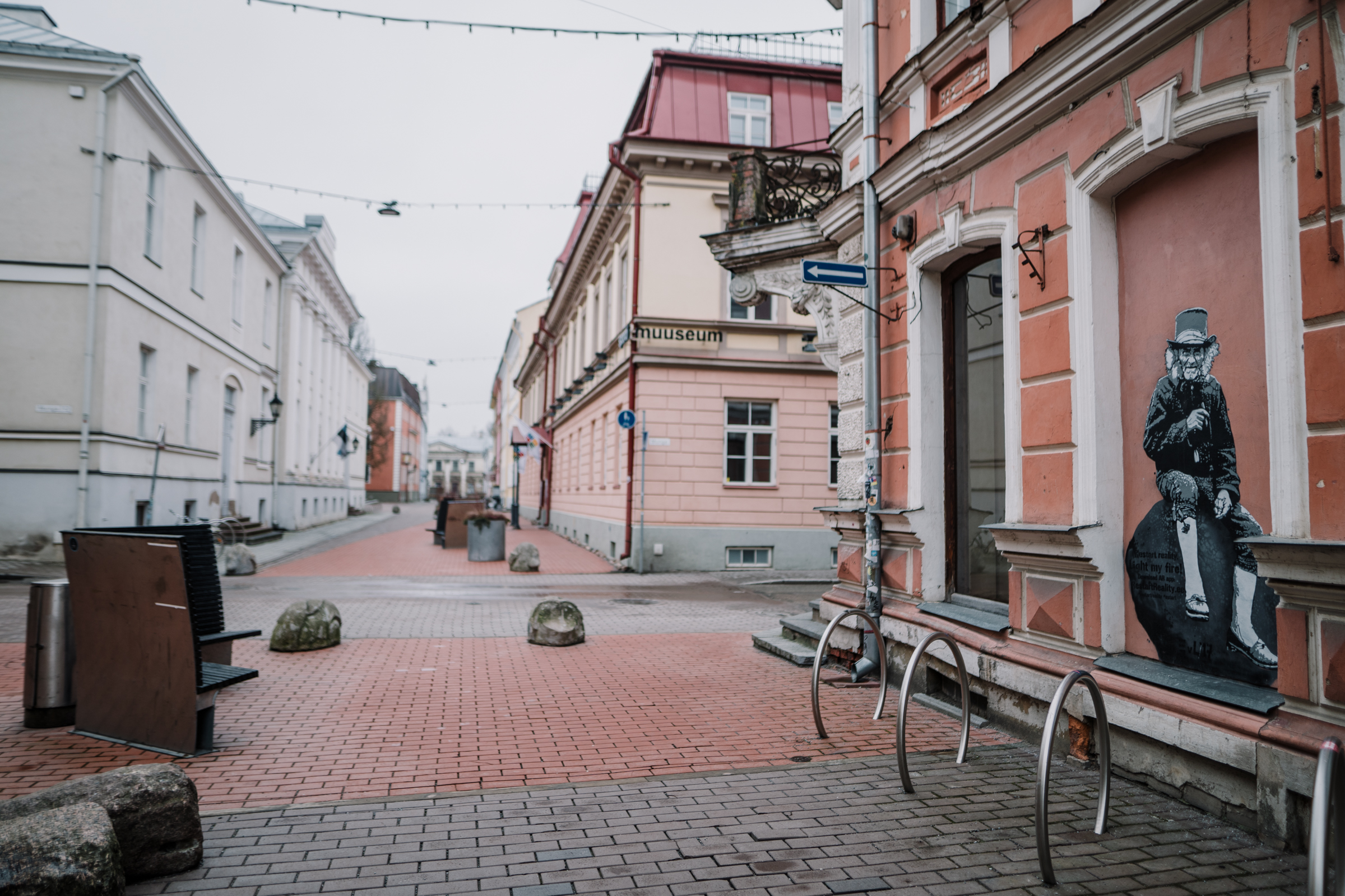 Rüütli street empty during COVID-19 pandemic.